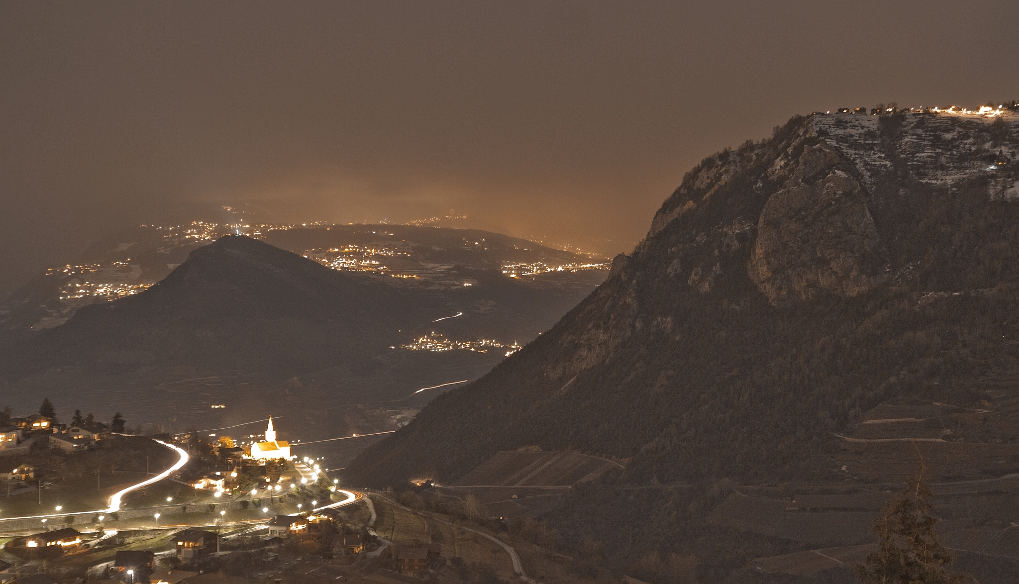 Vex, Valais, Switzerland